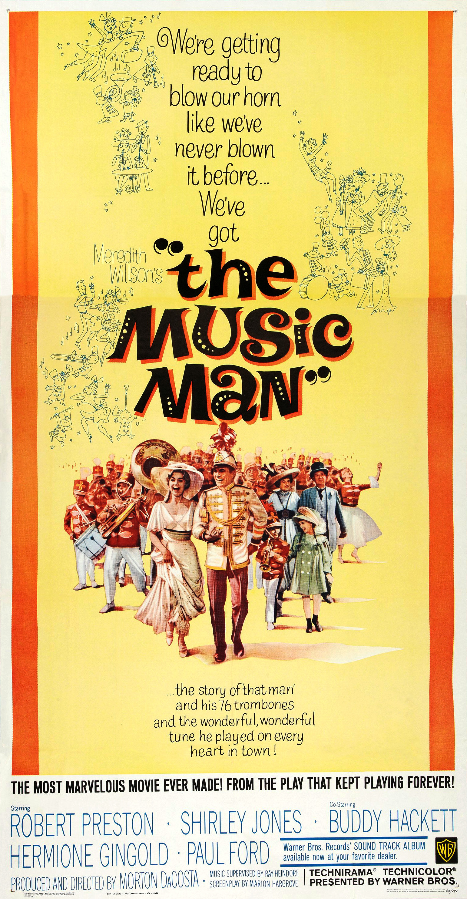 Theatrical release poster for the 1963 film The Music Man, an adaptation of the 1957 musical of the same name. Three-sheet size.